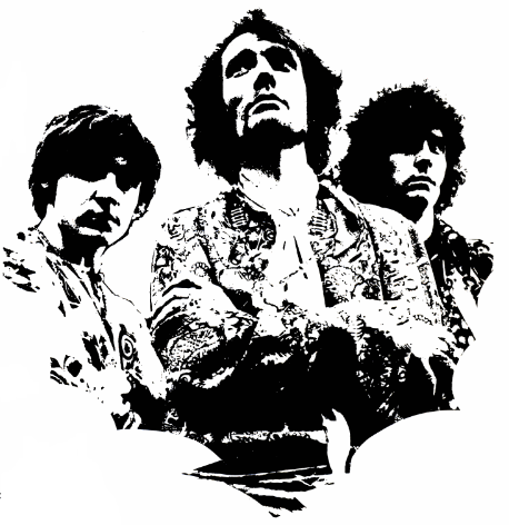 Trade ad for Cream's "White Room".